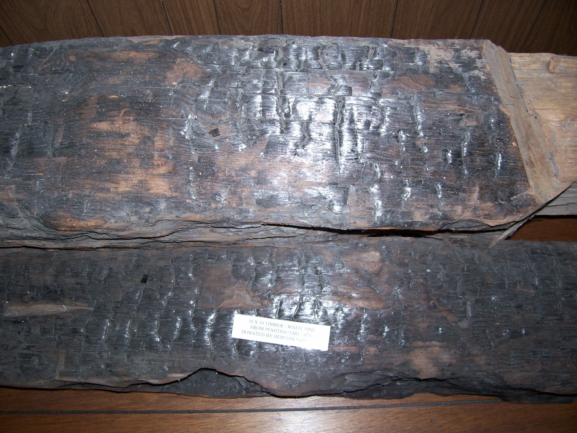 A 10 (inch) x 10 (inch) piece of lumber that survived the Peshtigo Fire, the deadliest in the history of the United States. The lumber is located at the Peshtigo Fire Museum in Peshtigo, Wisconsin, USA. The note reads: "10 x 10 TIMBER - WHITE PINE FROM PESHTIGO FIRE 1871 DONATED BY HERMAN PRESTINE"